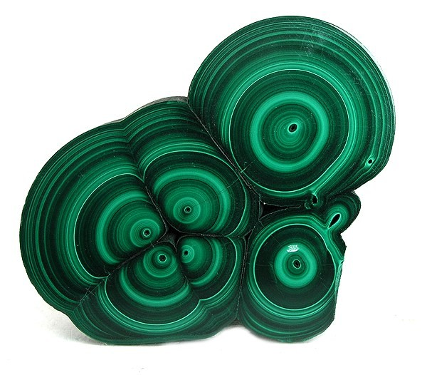 Malachite Locality: Katanga (Shaba), Democratic Republic of Congo (Zaïre) (Locality at ) There are two very similar specimens in this set of auctions, of completely different minerals: a slice through an intergrown cluster of rhodochrosite stalactites, and this a similar cluster of malachite stalactites, with gorgeous "bulls-eye" patterns from the concentric rings of deposition formed as the stalactite thickened through deposits over thousands of years. Polished on both sides. 8.0 x 6.1 x 0.7 cm